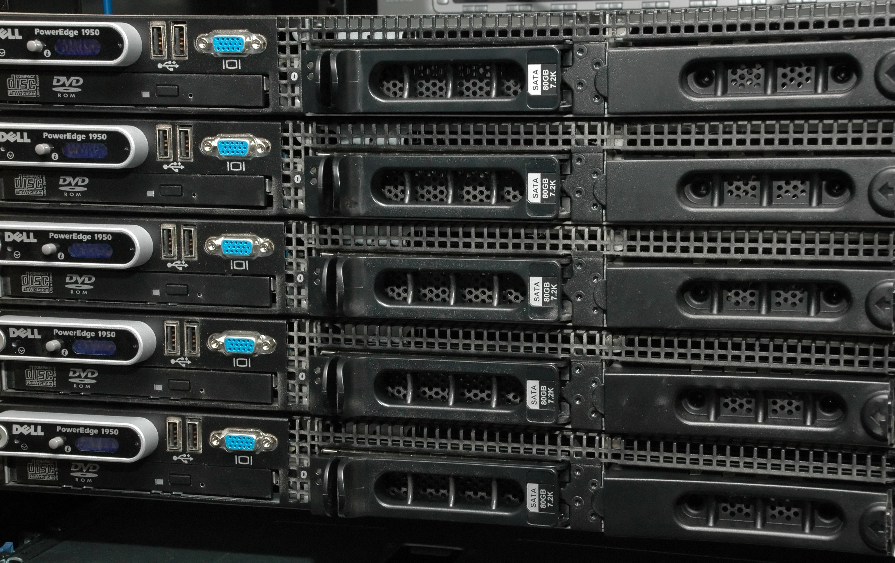 The front of 5 Dell PowerEdge 1950 servers.